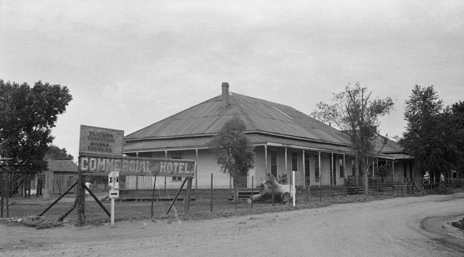 Commercial Hotel, State Route 82 Vicinity, Patagonia, Santa Cruz County, AZ GENERAL VIEW FROM HIGHWAY, HABS ARIZ,12-PAT,1-1 Historic American Buildings Survey